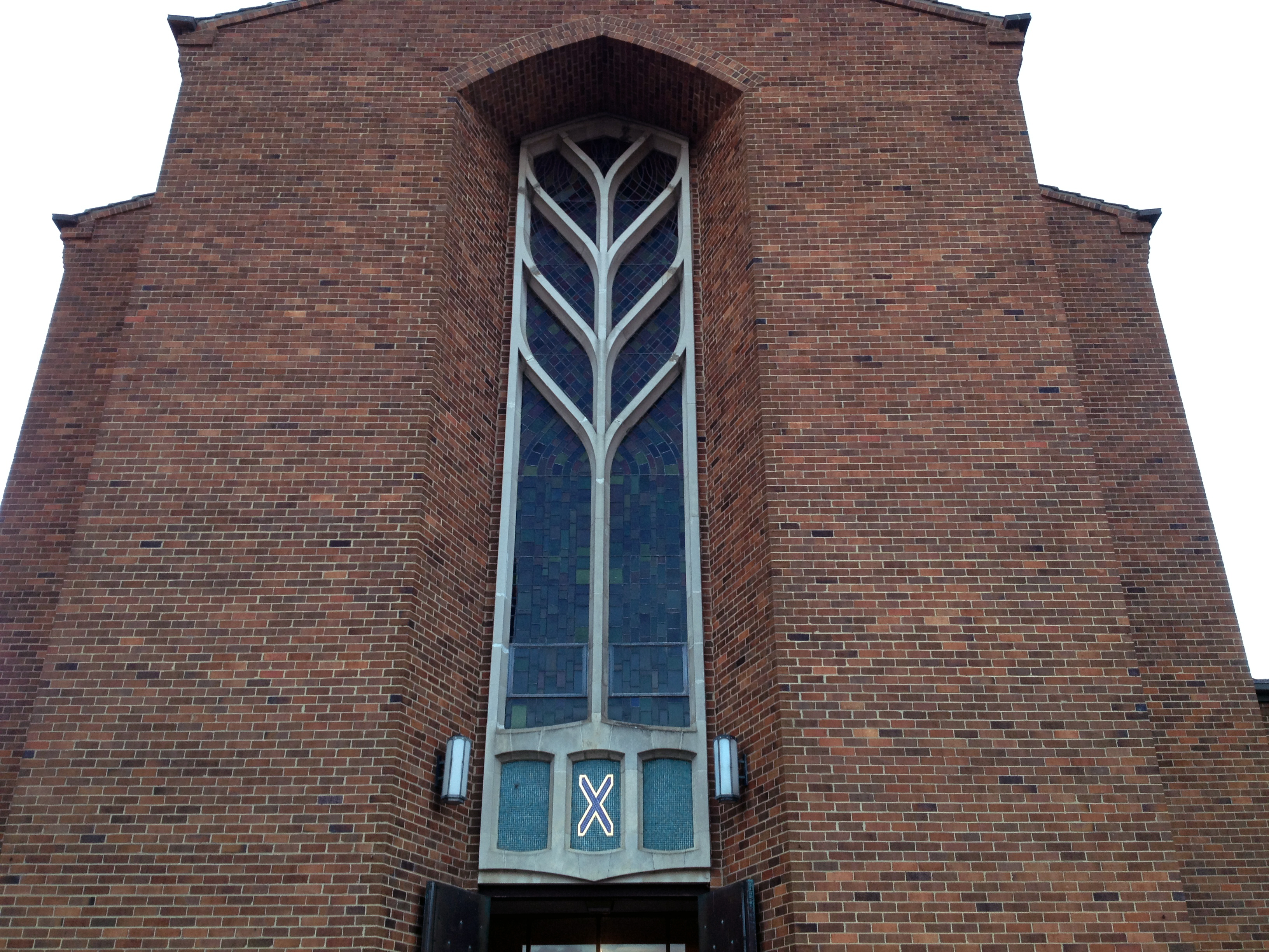 St Andrew's Church, Brighton - West front lancet arch